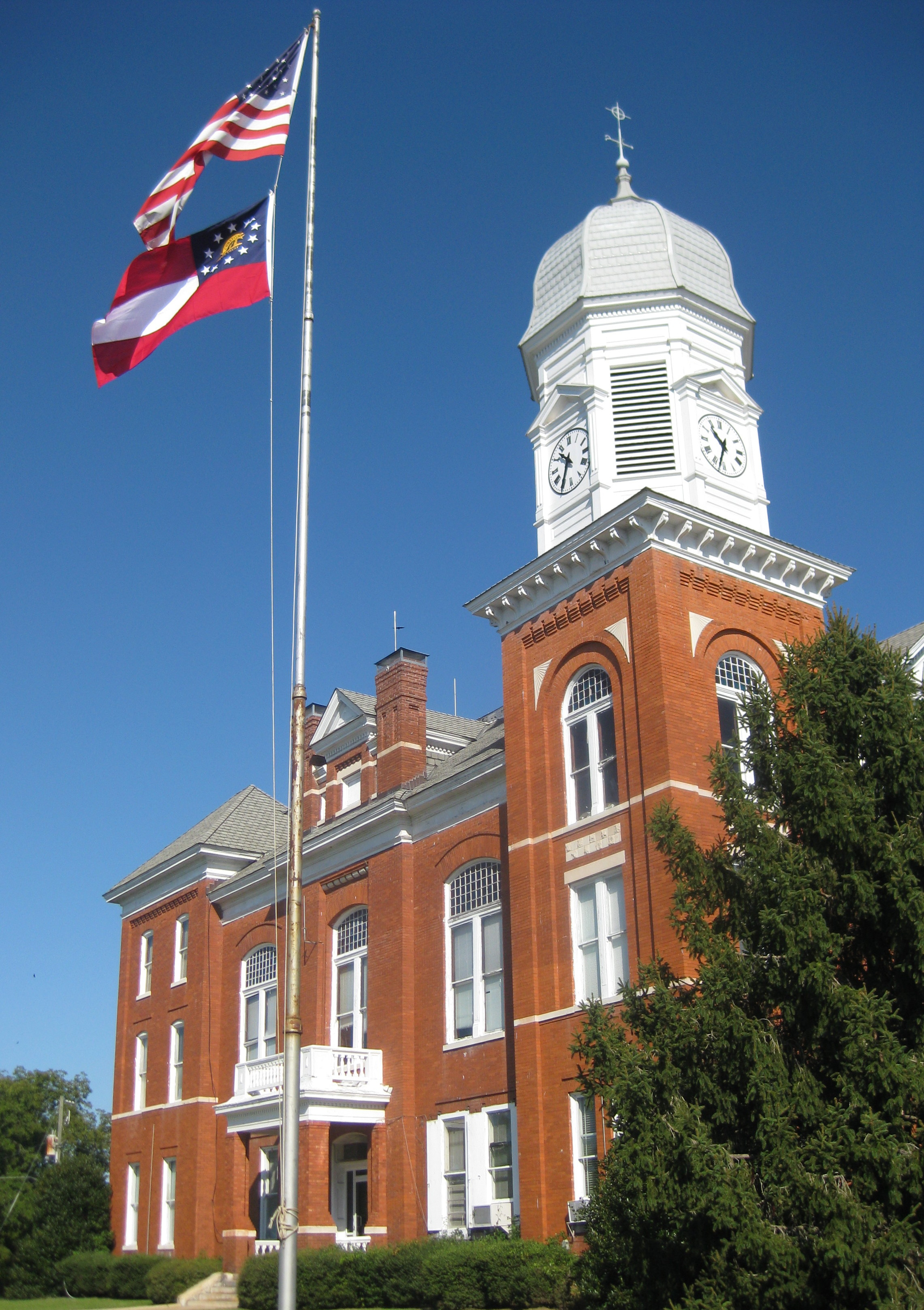 The flags of the United States of America and the State of Georgia fly atop the pole near the clock tower of the 1902 Taliaferro County Courthouse in Crawfordville, Georgia.